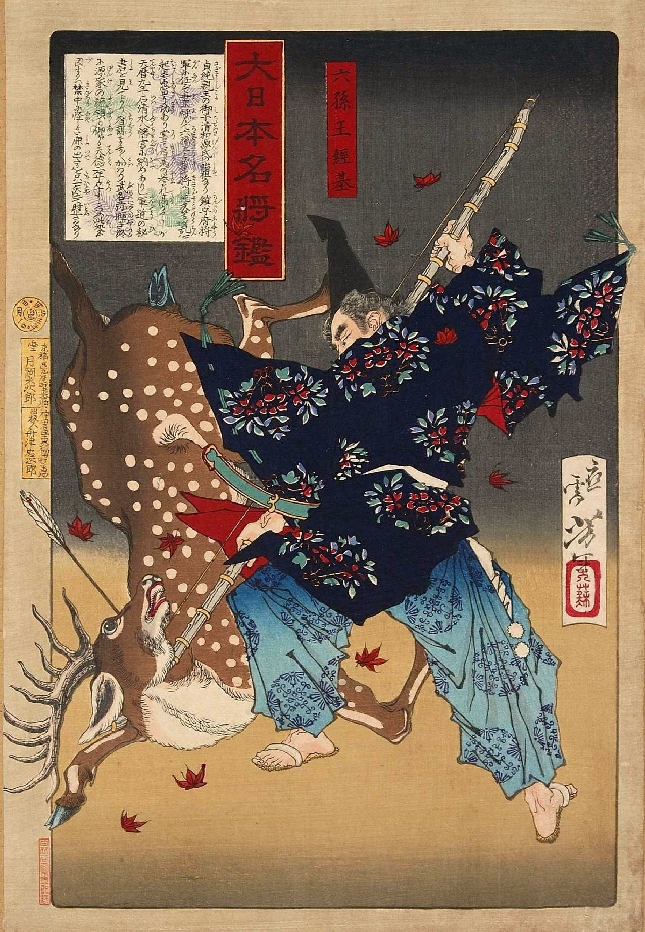 Minamoto no Tsunemoto, known as a master of archery, killed deer running about wildly inside the Imperial court.